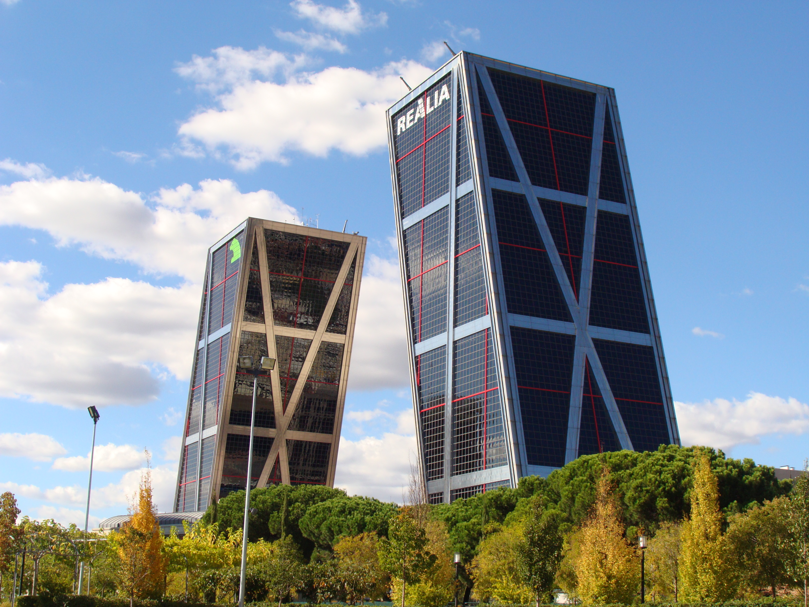 Kio Towers (Puerta de Europa) (Madrid)